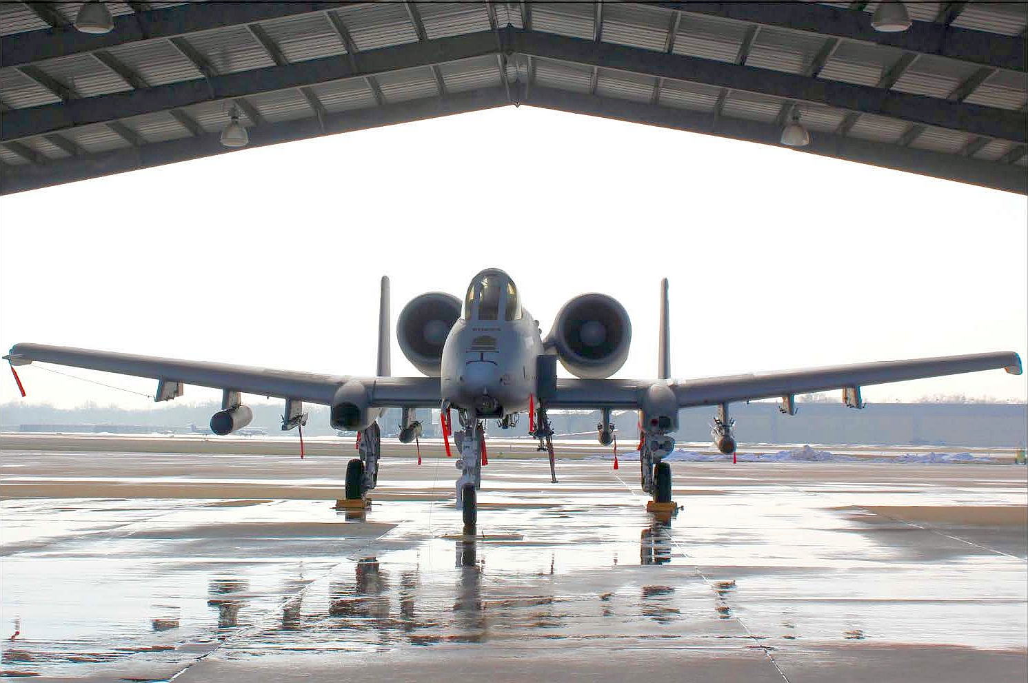 This image is excerpted from a U.S. GAO report: FORCE STRUCTURE: Better Information Needed to Support Air Force A-10 and Other Future Divestment Decisions